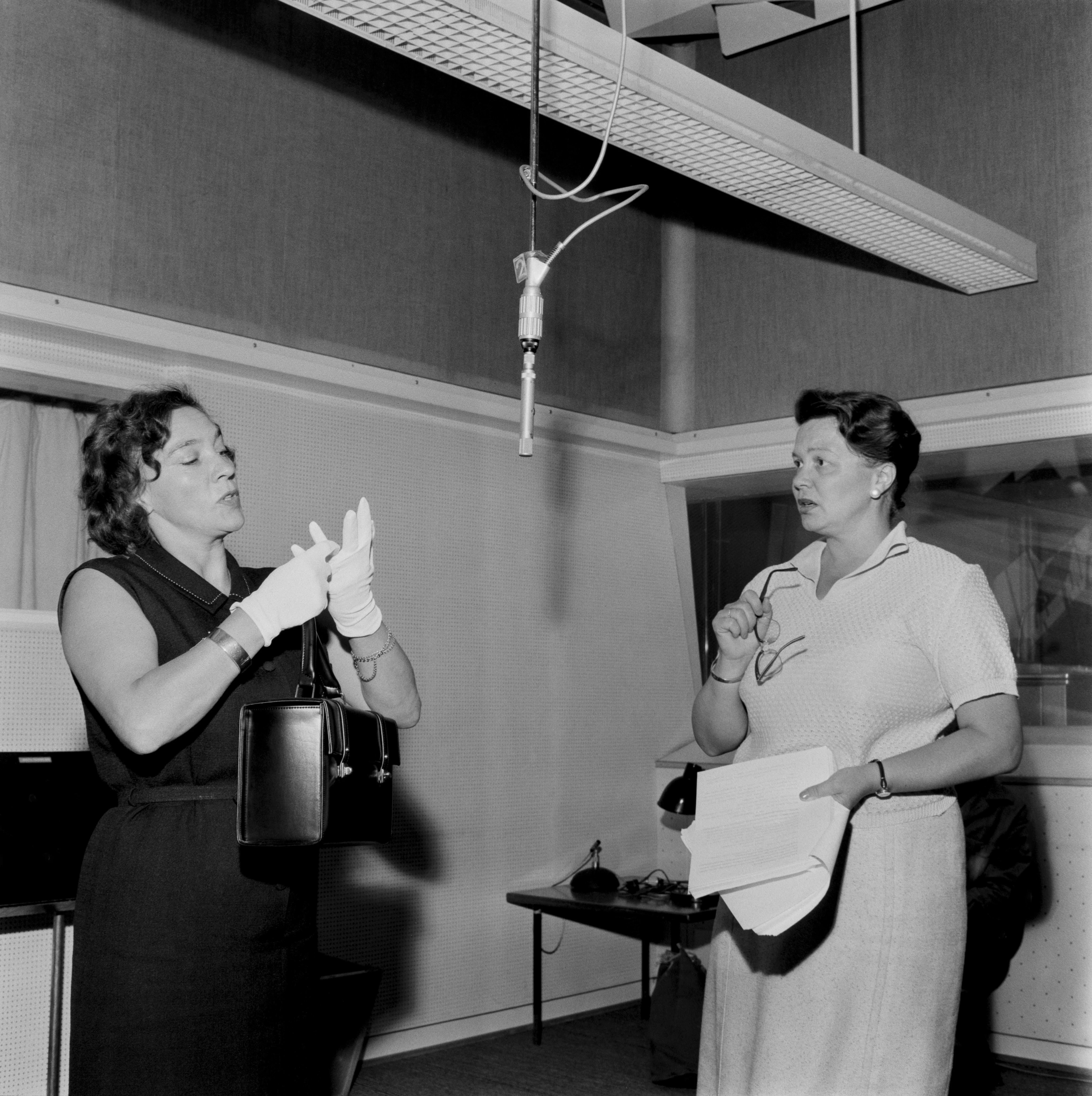 Photograph of the Finnish actors Eila Pehkonen (1924–1991) and Terttu Soinvirta (1921–1984) appearing in the radio play Saara at Yleisradio studio.